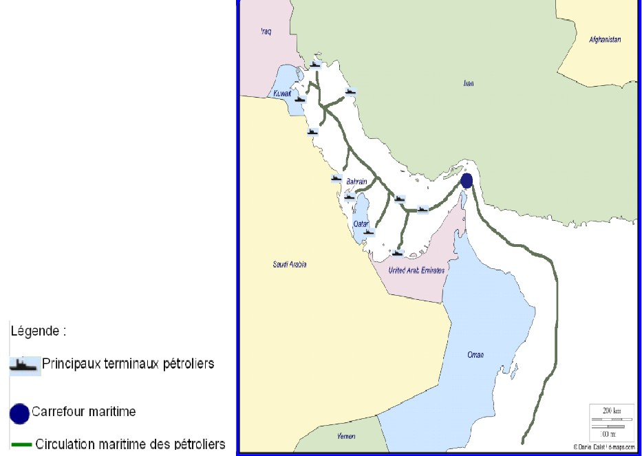 Carte de la circulation maritime pour le Golfe Persique